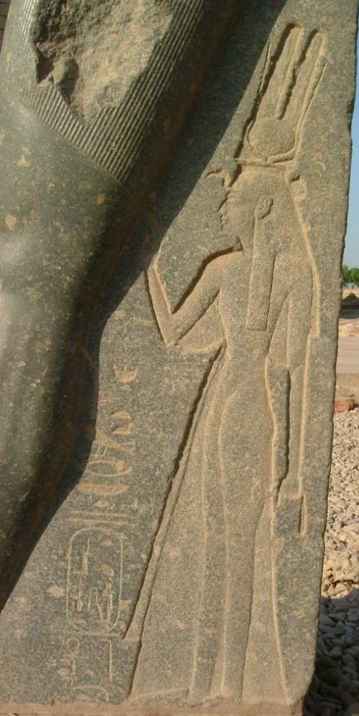 Isetnofret II depicted on the side of a statue of Merenptah